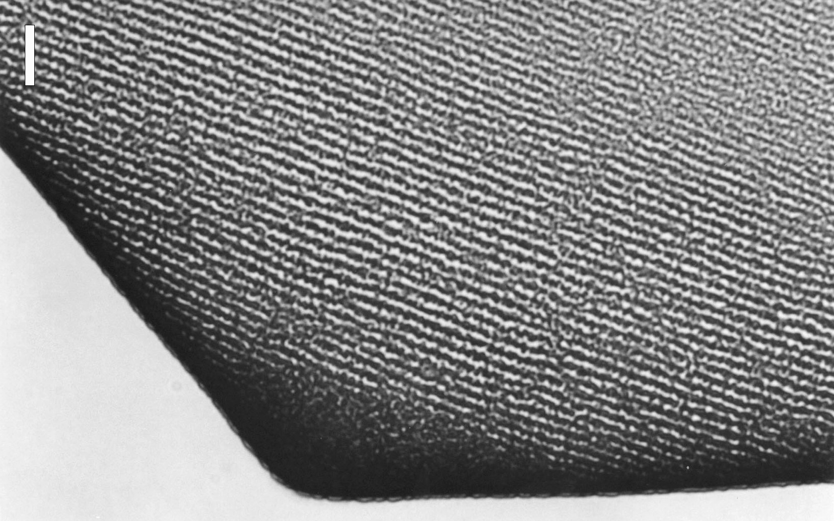 Microscopic patterns in NaOH+AgNO3 Hantz reactions, scale bar 25 um